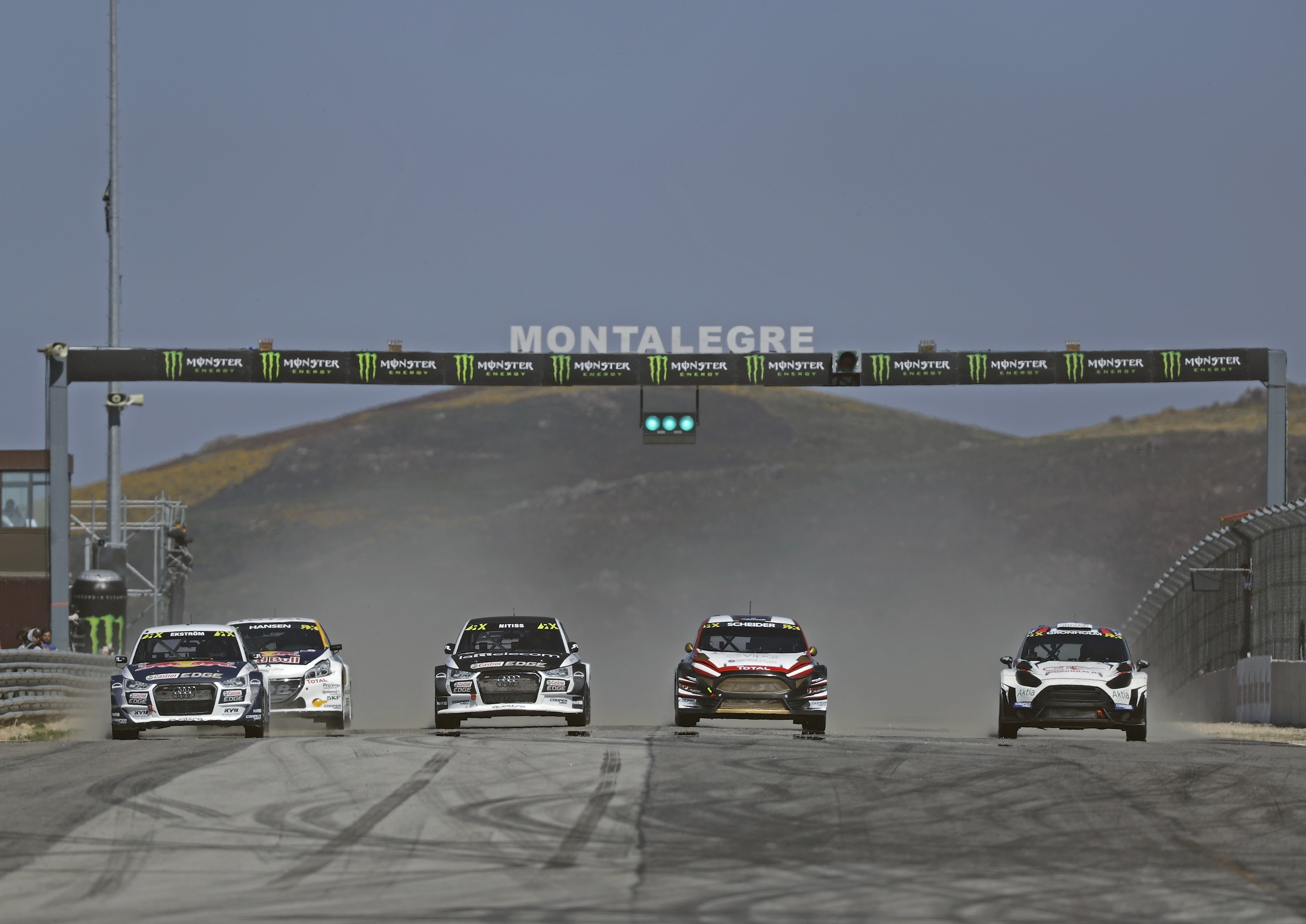 2017 FIA World Rallycross Championship // Round 02, Montalegre // Credit: EKS/Bodo Kraeling